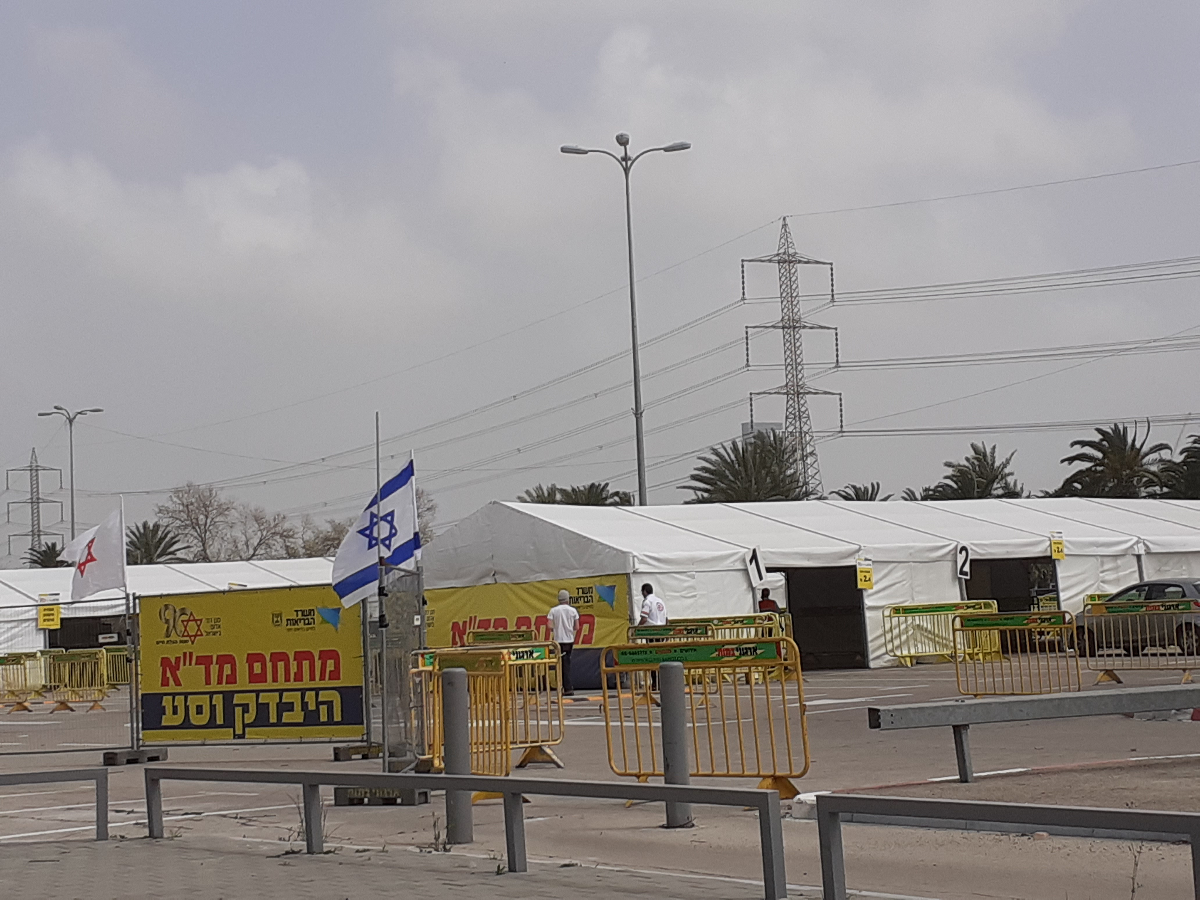 COVID-19 cheking center in Tel Aviv, March 2020